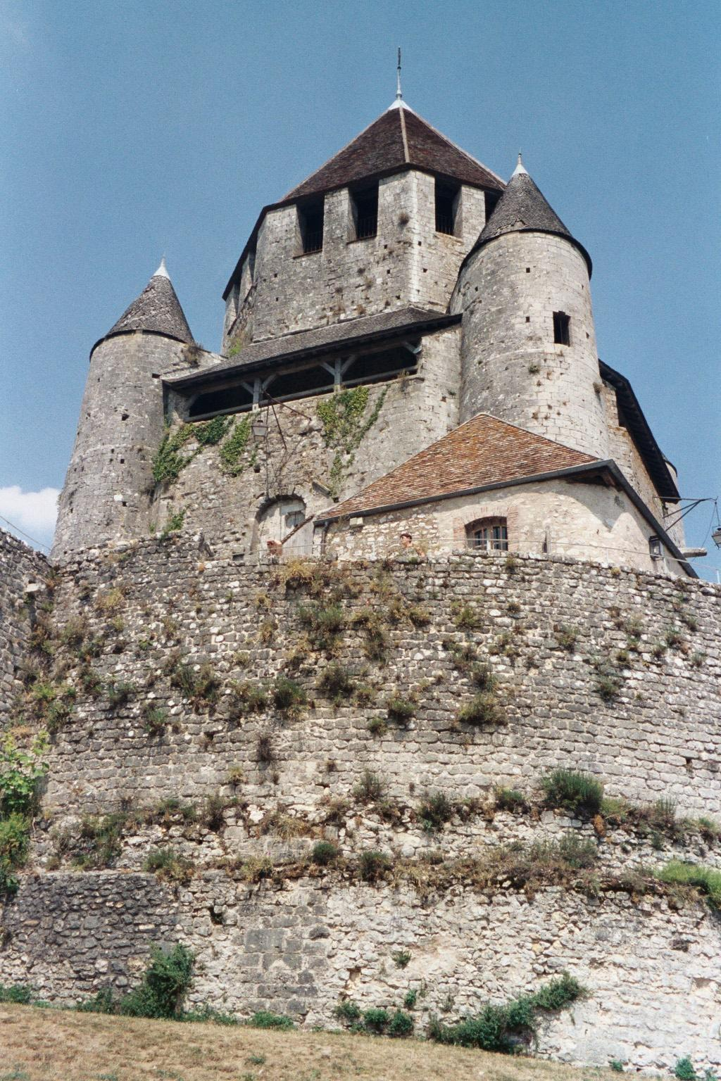 The César tower, in the town of Provins. Taken in Provins, France, scanned from an argentic reel.